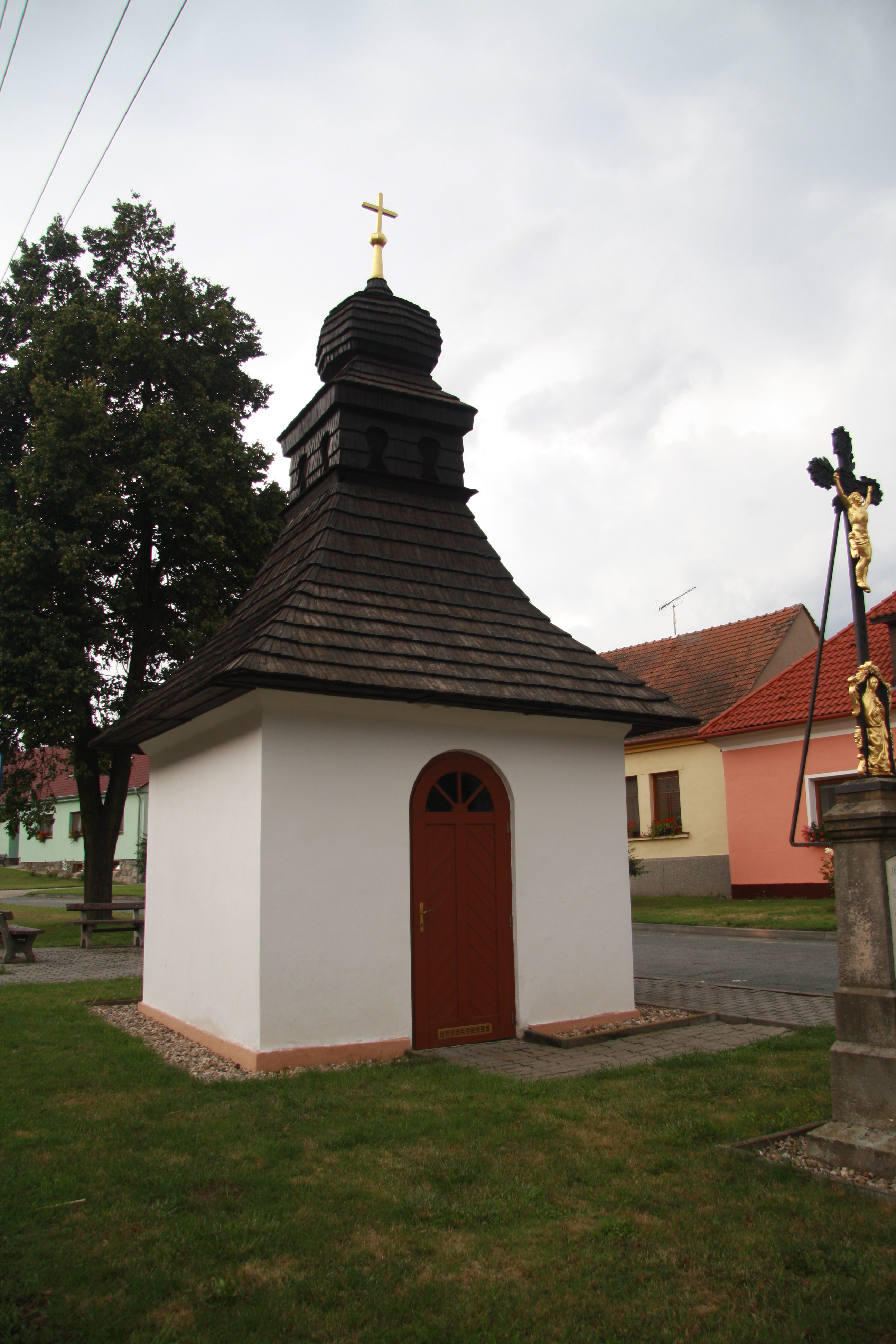 Chapel of Saint Mary Magdalene in Čikov, Třebíč District.